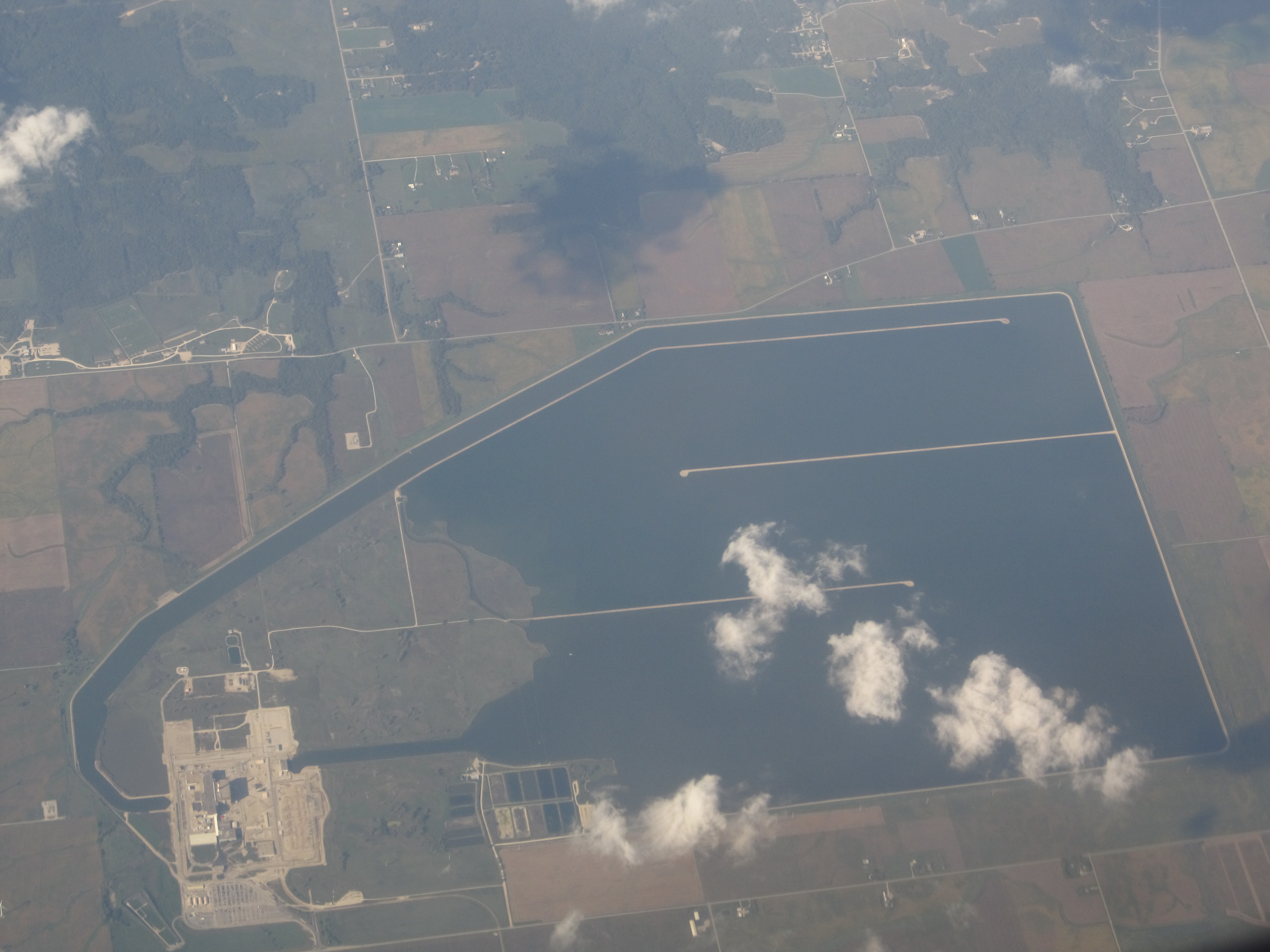 LaSalle County Nuclear Generating Station, located 11 miles (18 km) southeast of Ottawa, Illinois serves Chicago and northern Illinois with electricity. The plant is owned and operated by the Exelon Corporation. Its Units 1 and 2 began commercial operation in August 1982 and April 1984, respectively. It has two General Electric boiling water reactors. LaSalle's Unit 1 is capable of generating 1200 net megawatts, while Unit 2 is capable of generating 1200 net megawatts, together generating a total of 2,400 net megawatts which is enough electricity to support the electricity needs of more than two million average American homes. Instead of cooling towers, the station has a 2,058 acres (8.33 km2) man-made cooling lake, which is also a popular fishery — LaSalle Lake State Fish and Wildlife Area — managed by the Illinois Department of Natural Resources. LaSalle County Station units 1 and 2 currently holds the world record top two spots for run time without shutting down for boiling water reactors, 739 and 712 days respectively. Both cycles were breaker to breaker. LaSalle Lake State Fish and Wildlife Area is an Illinois state park on 2,058 acres (833 ha) in LaSalle County, Illinois, United States. It is a man-made lake, built as a cooling pond for the LaSalle County Generating Station.